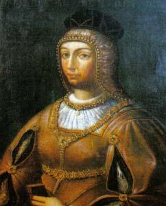 Portrait of King Manuel I by Henrique Ferreira (1720). Located at the Casa Pia Biblioteca Pina Manique, originally part of the Monastery of Belem royal portraits collection.